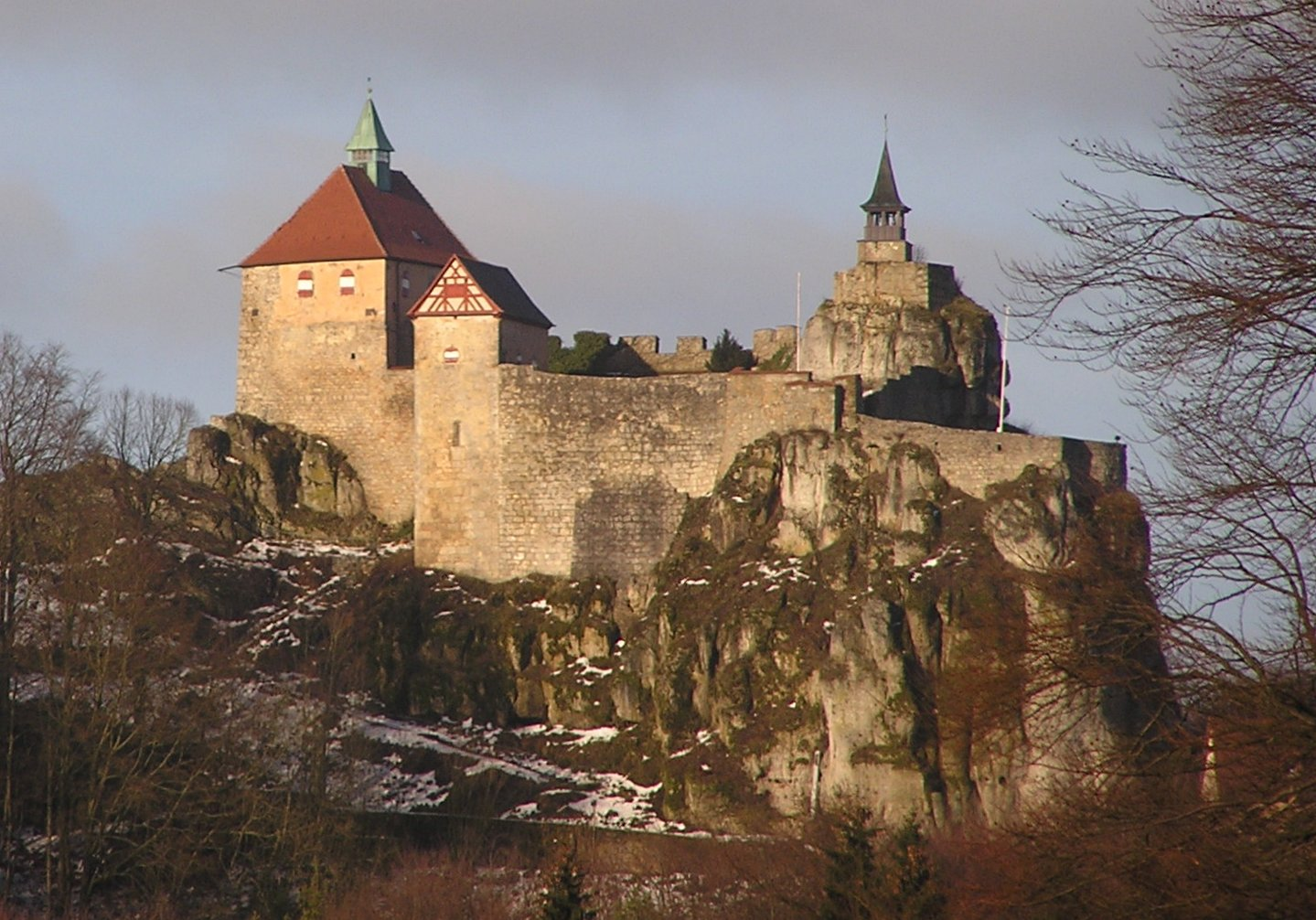 Distant look to castle Hohenstein (near the german town of Hersbruck)